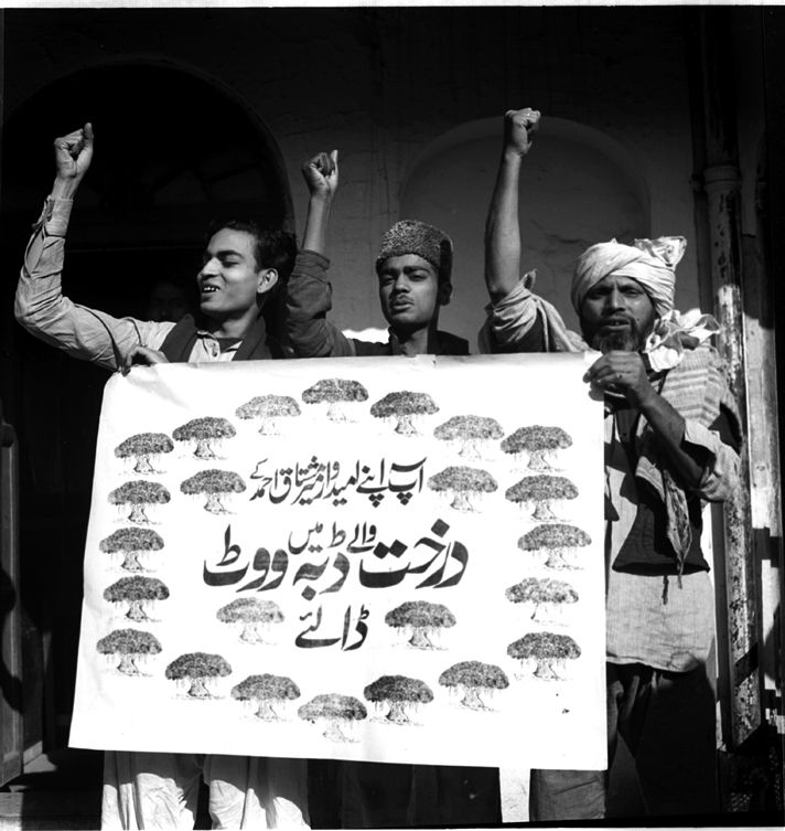 Supporters of the Socialist Party in the Indian general election 1951/52.